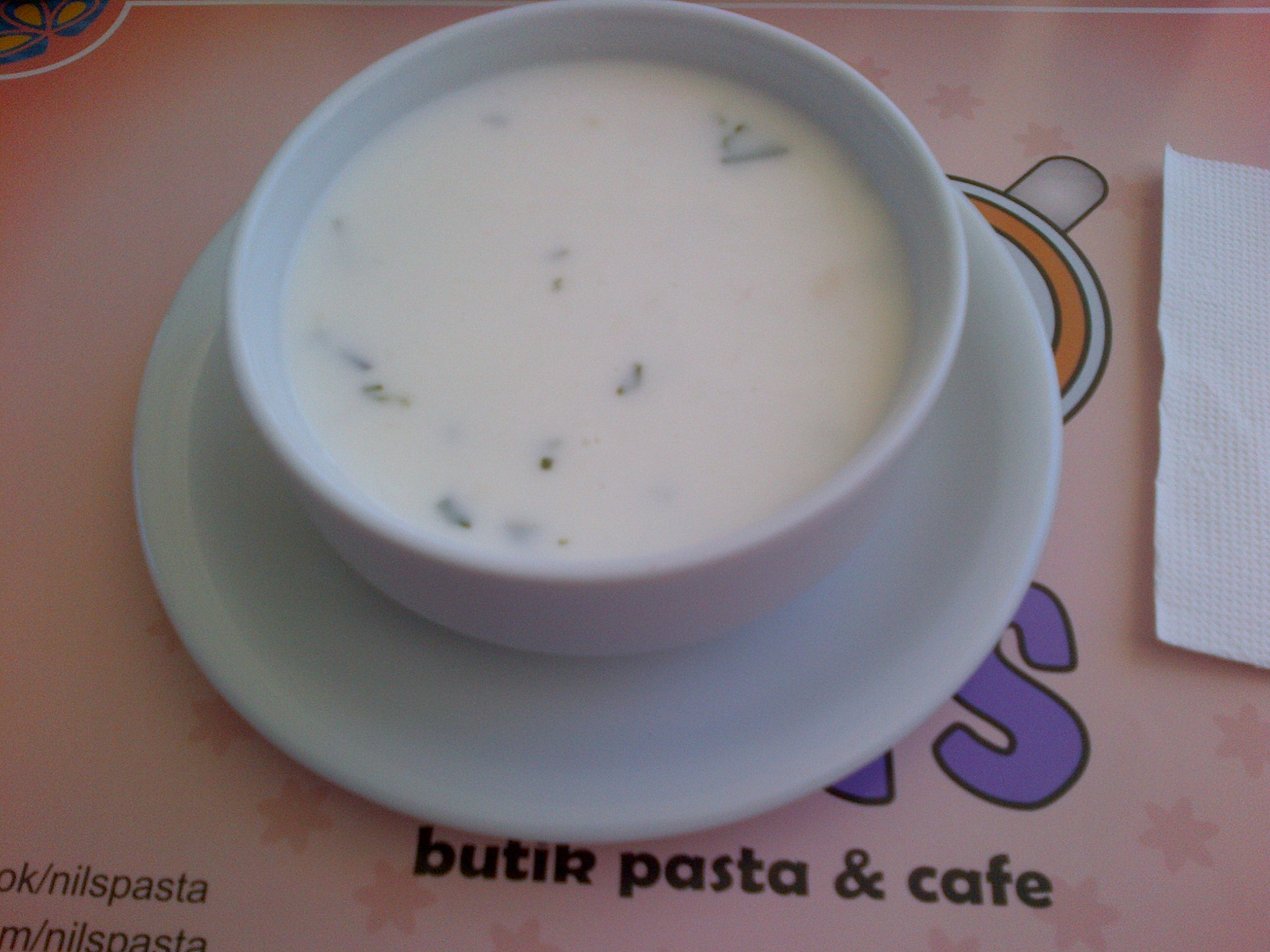 Turkish cold soup "ayran aşı".